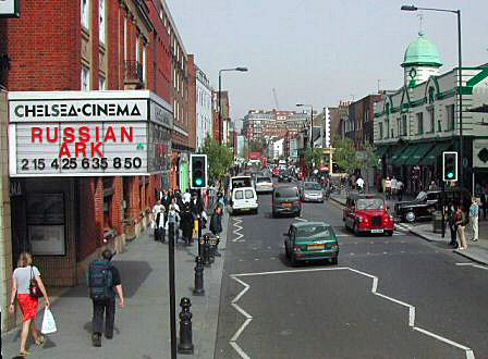 Panorámica de Kings Road, en Chelsea, Londres.